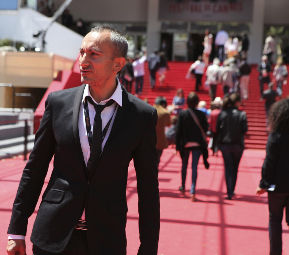 The 66th Cannes Film Festival